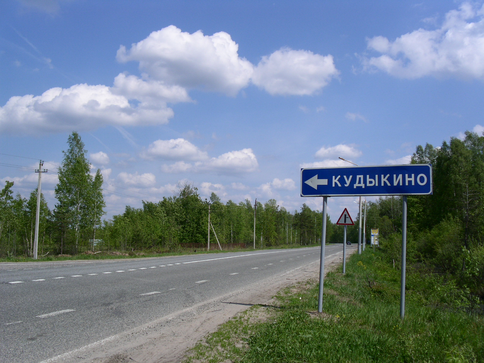 Road sign to the village Kudykino